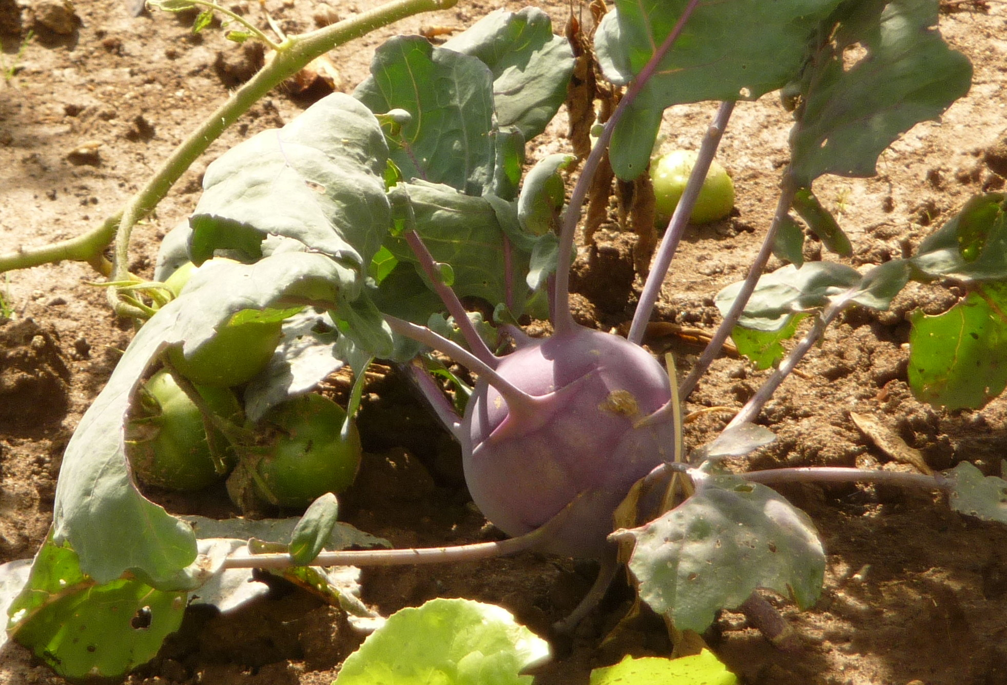 Kohlrabi (Brassica oleracea var. gongylodes), Fryšták